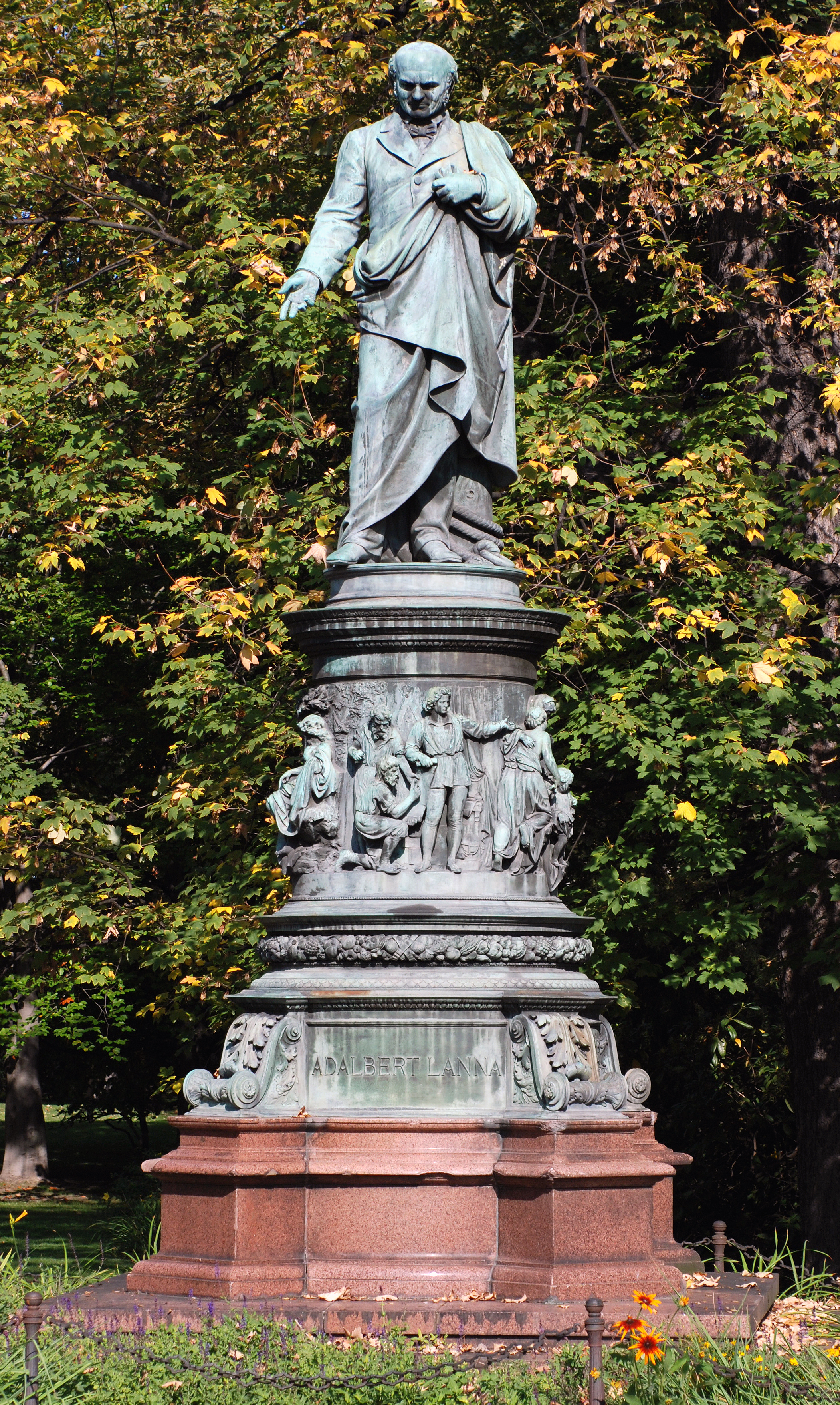 Statue of Adalbert Lanna in České Budějovice. This statue is situated in Park on the crossing of streets Na Sadech and Lannova.